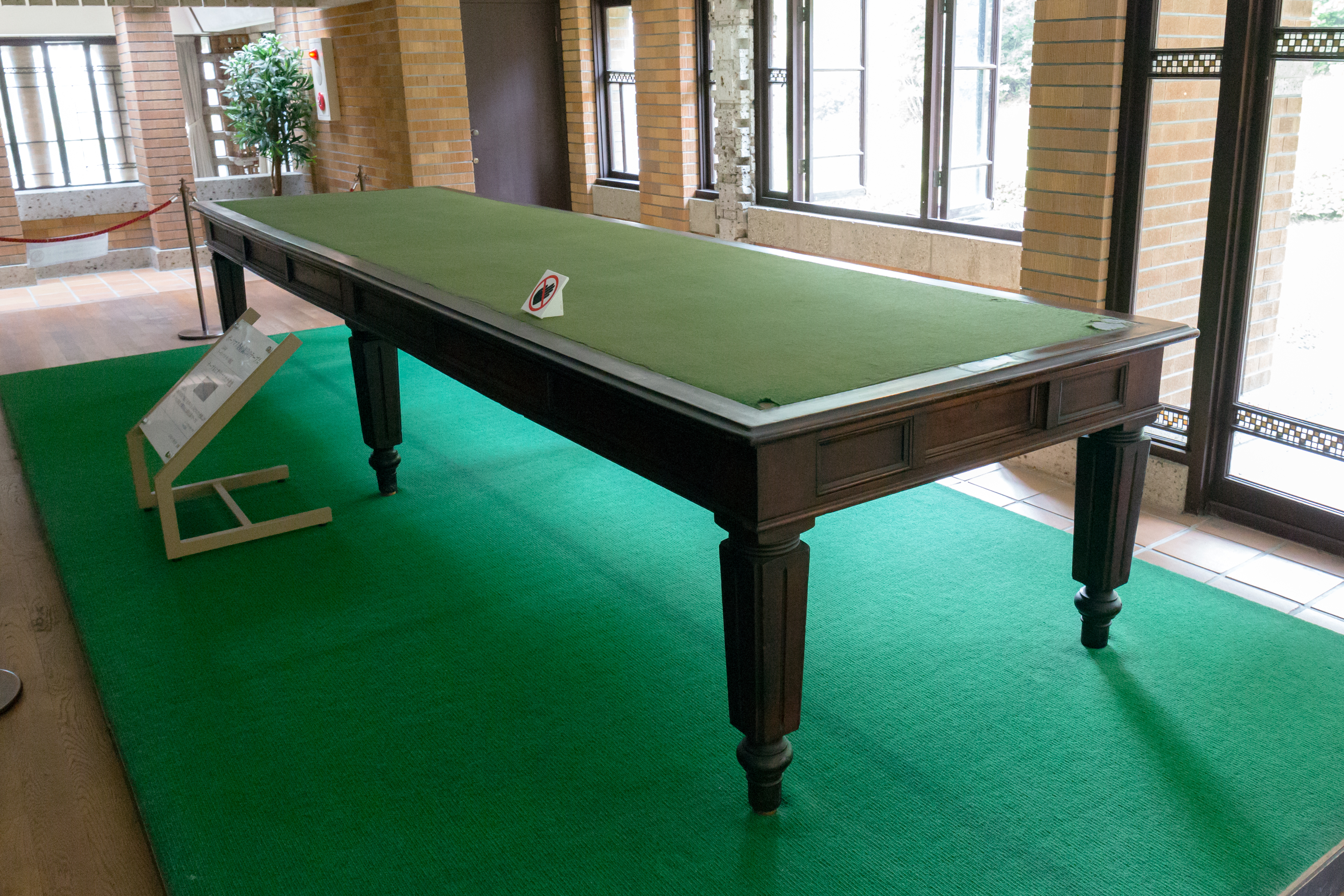 The table used at the signing ceremony of the Treaty of Portsmouty